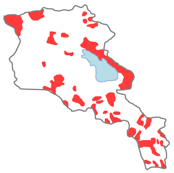 Azerbaijani people in Armenian SSR in 1962